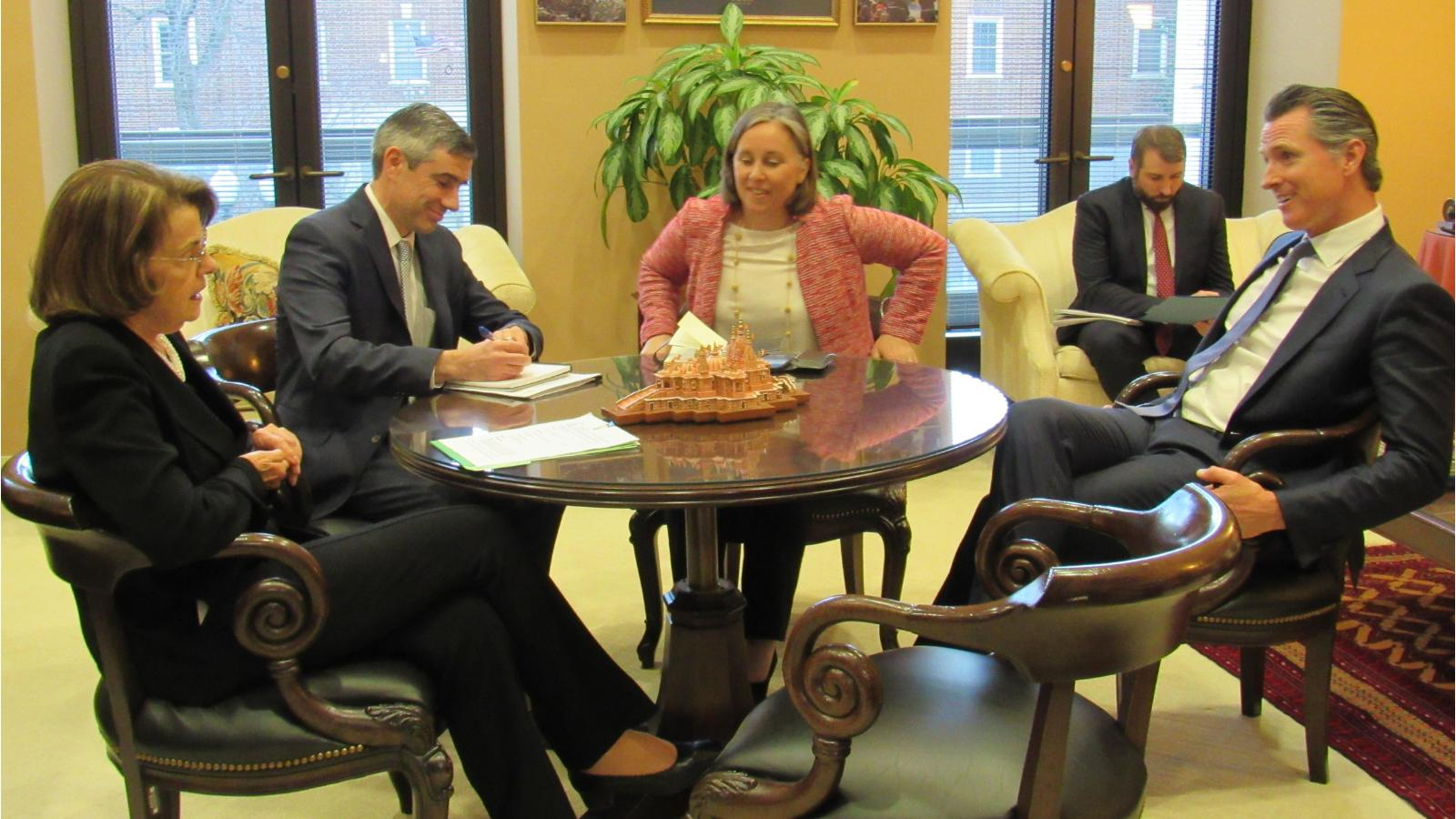 Great seeing Governor Newsom yesterday. We had a constructive meeting on ways to address wildfire, water infrastructure, disaster aid, homelessness and transportation funding, among other issues. I look forward to continuing our work together to advance California priorities.